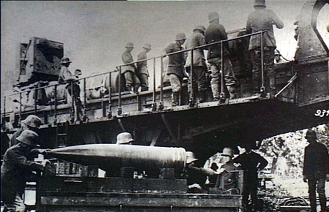 AWM caption : "France. 1918. A projectile being prepared for firing from a 38 cm German Army rail mounted heavy gun named "Langer Max". Comment : The Paris Gun fired shells of approximately 21 cm. The shell seen here appears closer to 38 cm. Hence its can't be the Paris Gun. This in fact appears to show the 38 cm Max gun. Note : This version of the photograph has brightness and contrast artificially increased to highlight details.